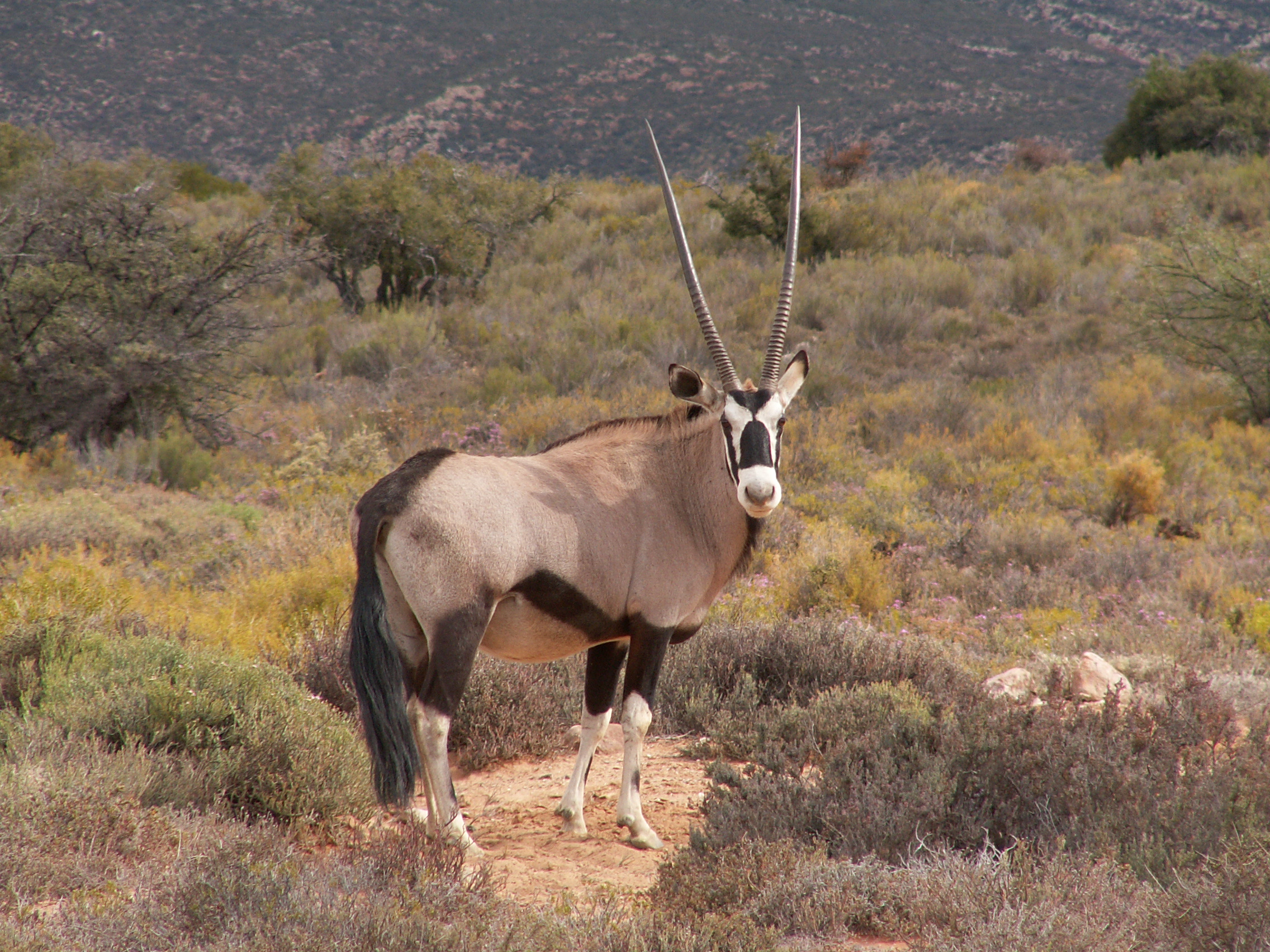 Gemsbok or Gemsbuck or Oryx-Antelope, Oryx gazella, Anysberg Nature Reserve, Western Cape, South Africa